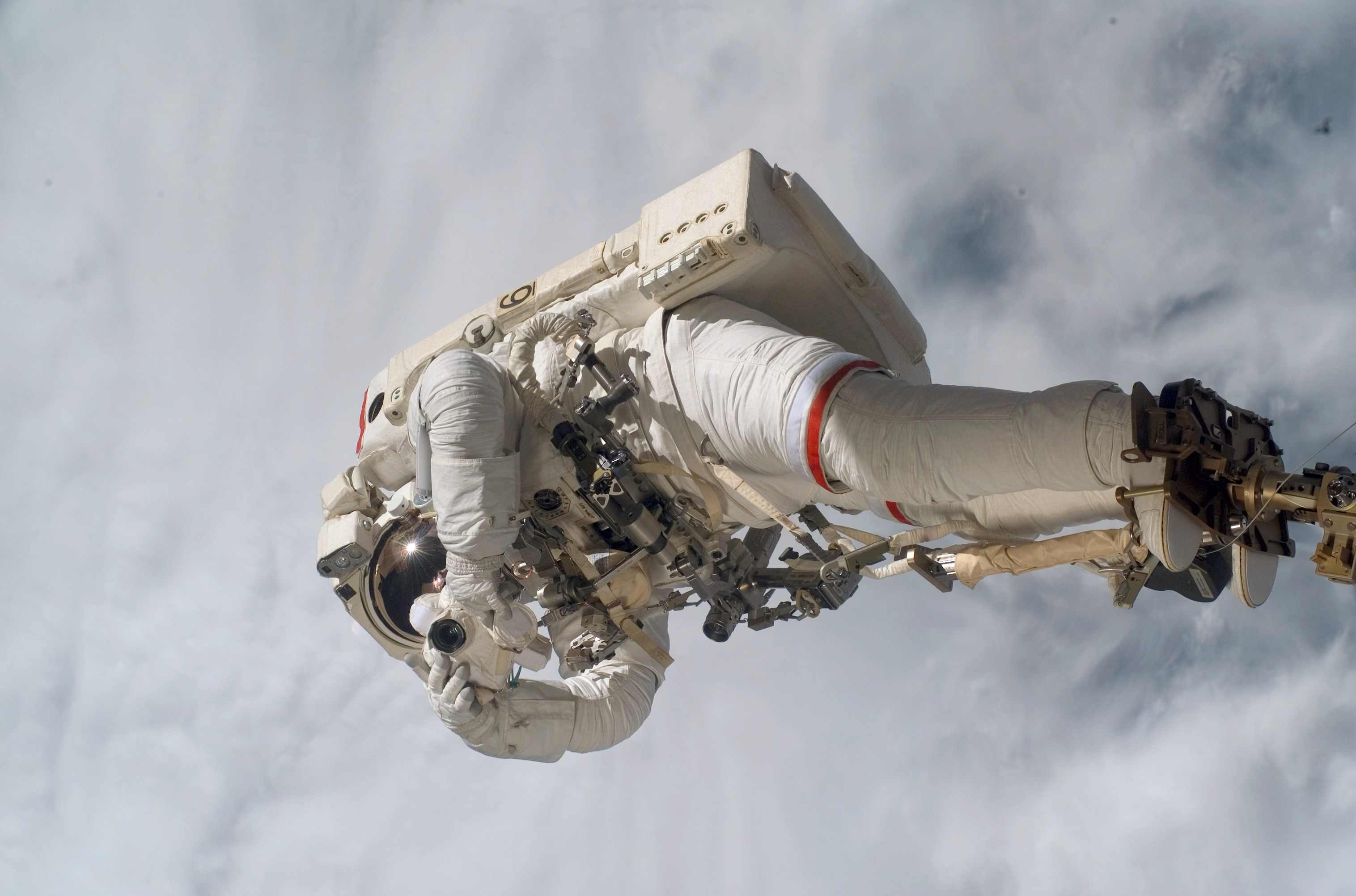 Anchored to a Canadarm2 mobile foot restraint, astronaut Rick Linnehan, STS-123 mission specialist, participates in the mission's third scheduled session of extravehicular activity (EVA) as construction and maintenance continue on the International Space Station. During the 6-hour, 53-minute spacewalk, Linnehan and astronaut Robert L. Behnken (out of frame), mission specialist, installed a spare-parts platform and tool-handling assembly for Dextre, also known as the Special Purpose Dextrous Manipulator (SPDM). Among other tasks, they also checked out and calibrated Dextre's end effector and attached critical spare parts to an external stowage platform. The new robotic system is scheduled to be activated on a power and data grapple fixture located on the Destiny laboratory on flight day nine.